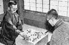 Scan of newspaper image from the 1930's showing two individuals playing Go. This photo is from 1933 or 1934, and as such its copyright expired in Japan in 1984, see Japanese_copyright_law#Length_of_protection